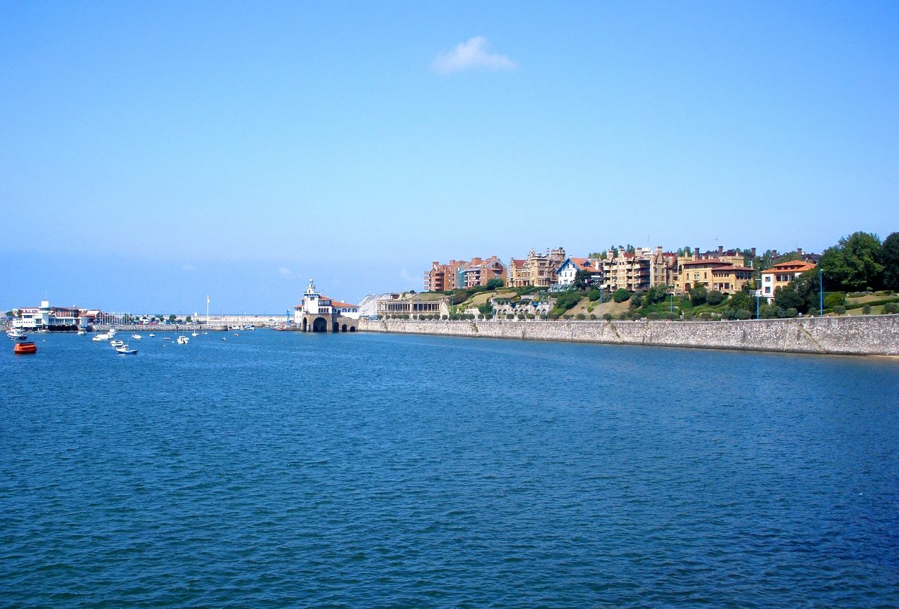 El Abra, frente a Neguri, Guecho (Vizcaya)